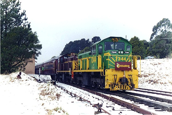 Freezing conditions cause the Cockatoo Run to terminate at Robertson